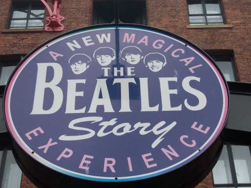 The Beatles Story, museum in Liverpool